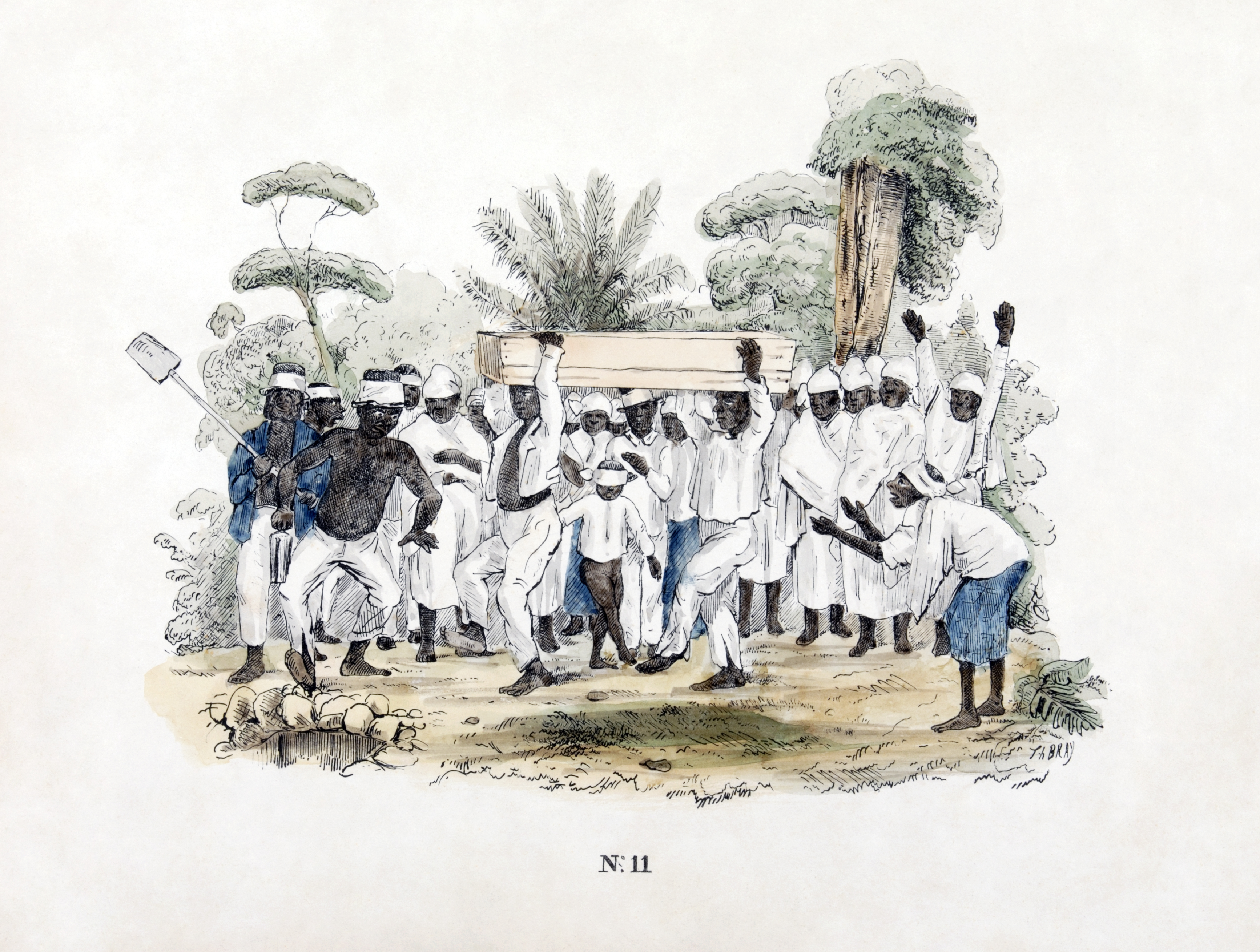 Slave funeral at plantation, Suriname. Colored litho Th. Bray. Apparently the artist witnessed a burial among slaves. Slaves could arrange their own burials and perform the rituals that are part of it. From the posture of some of the persons one can see the dynamics that are part of it: people clap, move their arms, and dance. All people are dressed in white. The dead person lies in a wooden coffin, carried to the burial by two men. A little boy is blindfolded, a practice that occurred frequently. Suriname origins are from Javanese, in Java the purpose of this ritual is to deduct family grief. In this picture,the boy maybe is the only grieving family. The white clothes, describe that in Suriname still bring their beliefs (Javanese muslim)